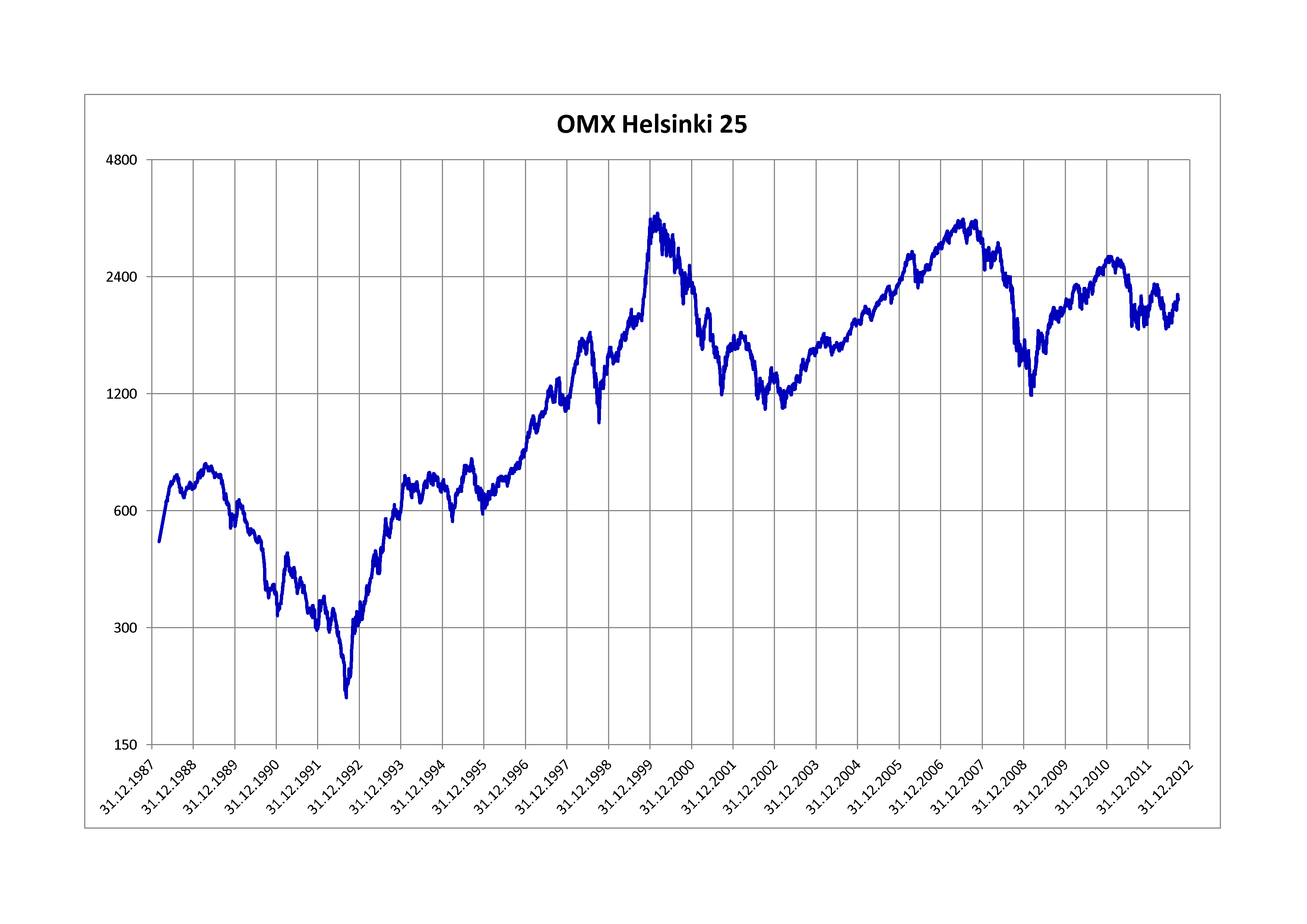 OMX Helsinki 25 from March 1988 to September 2012 (daily closings)